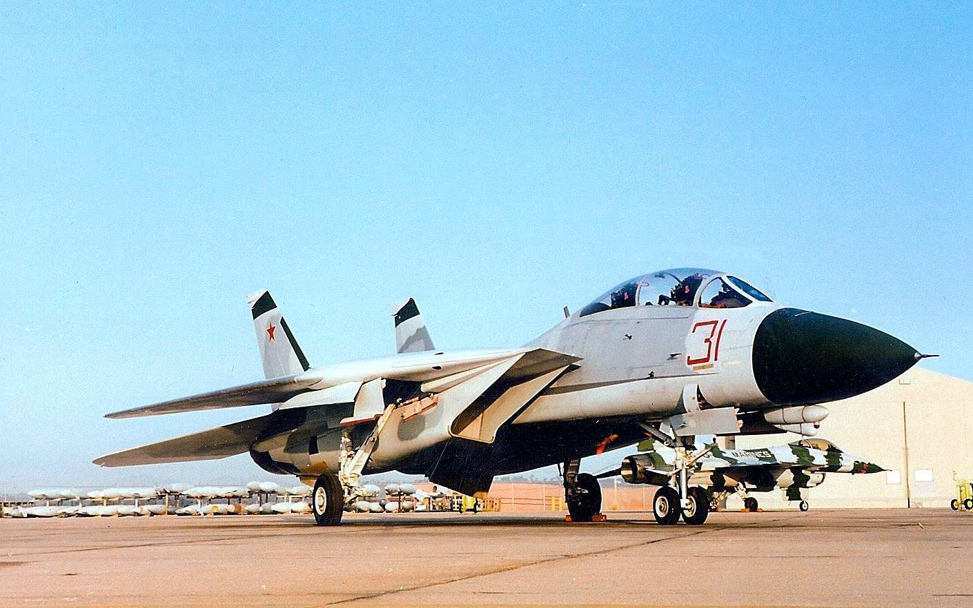 A U.S. Navy Grumman F-14A-90-GR Tomcat (BuNo 159855) of Fighter Squadron VF-126 "Bandits".